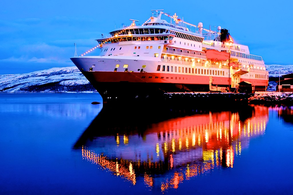 The hurtigruten ship "MS Finnmarken" while at the harbour, in norways most northern town, kirkenes.